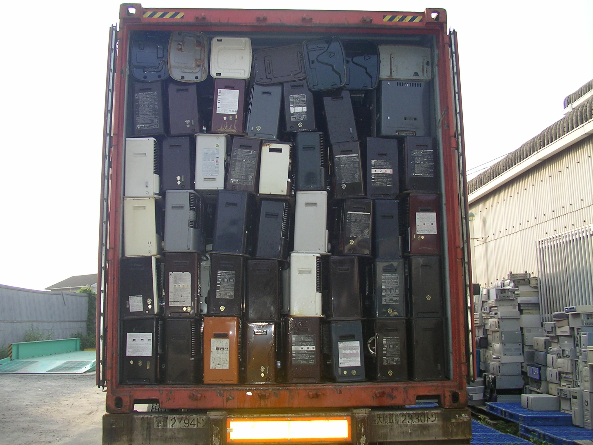 Export of used Japanese Electric Home Appliances.